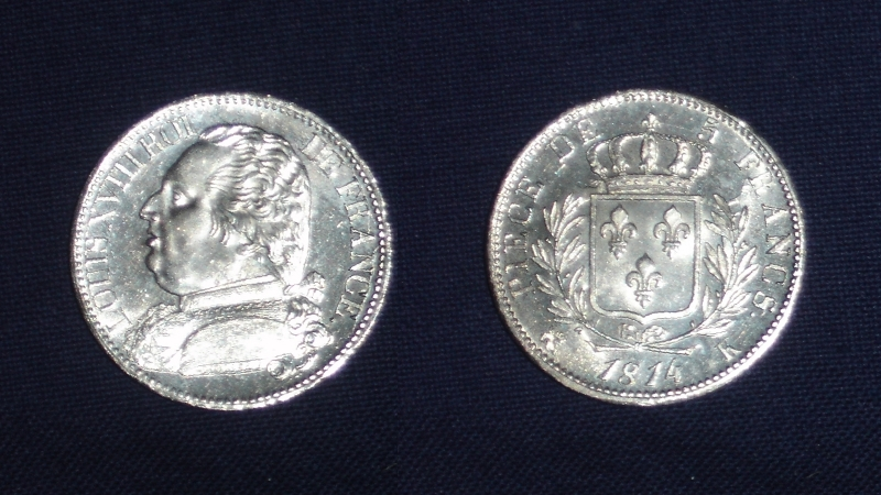 French 5 Francs, 1814-A (I took this photo with a Sony Cybershot ca. 2003. This coin (French 5 Francs, 1814-K = Bordeaux mint) I purchased from A Spink's London auction ca. 2002. I plan to use this photo to make a correction to a Wikipaedia article on French Revolutionary coinage. )